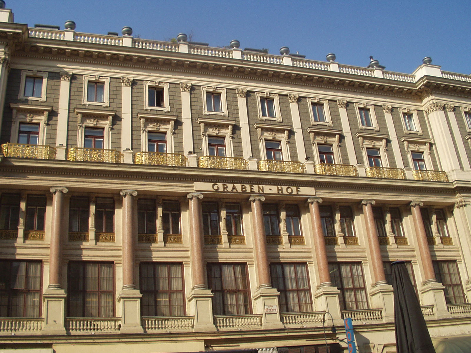 Graben 15, Grabenhof Architect: Otto Wagner Year: 1874-1876 Vienna, Austria digital photograph taken by heardjoin